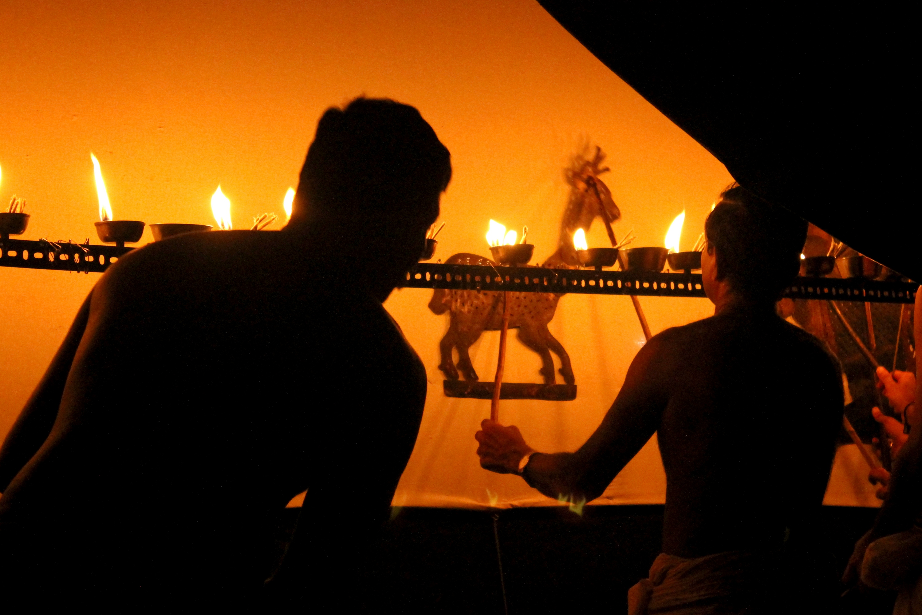 Tholpava koothu shadow puppet back stage